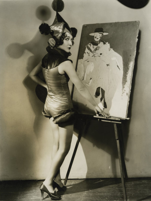 Dorothy Sebastian